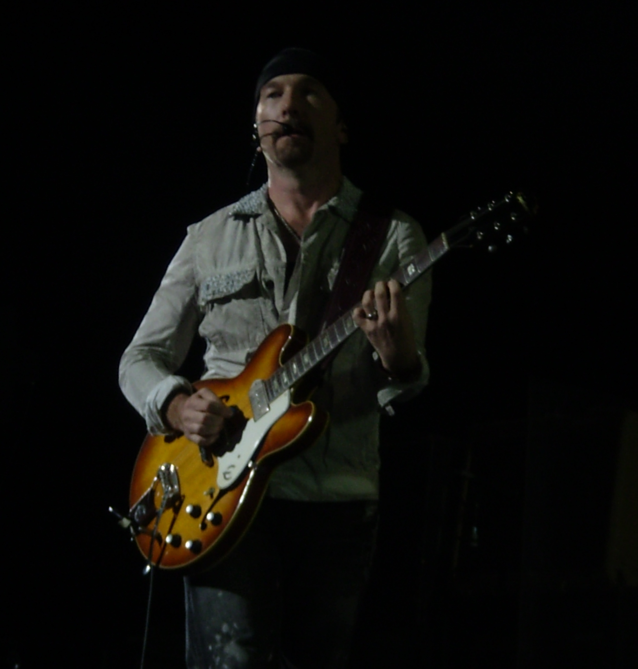 An image of The Edge (of U2) during a U2 360° Tour concert in Toronto. Taken 16 September 2009 at the Rogers Centre.